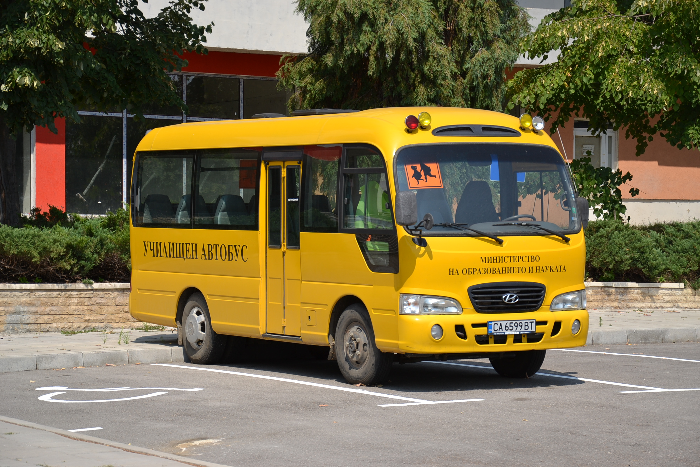 Hyundai County bus in Kula, Bulgaria